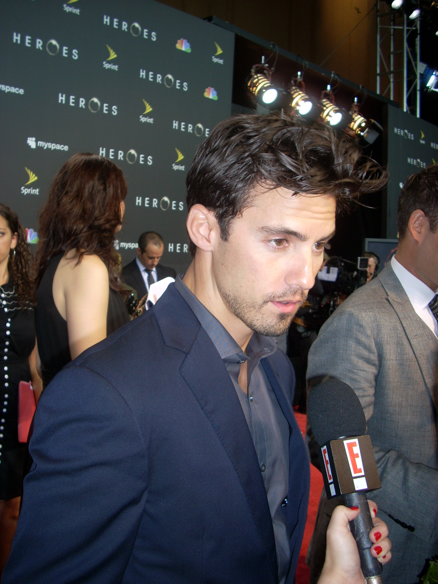 "Heroes" Season Three Premiere Party, Edison L.A., Downtown Los Angeles - September 7, 2008